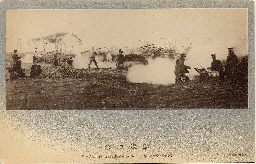 Japanese postcard depicting Battle of Shaho in the Russo-Japanese War of 1904-1905. Published 1905.10.15 by the Japanese Ministry of Communication.